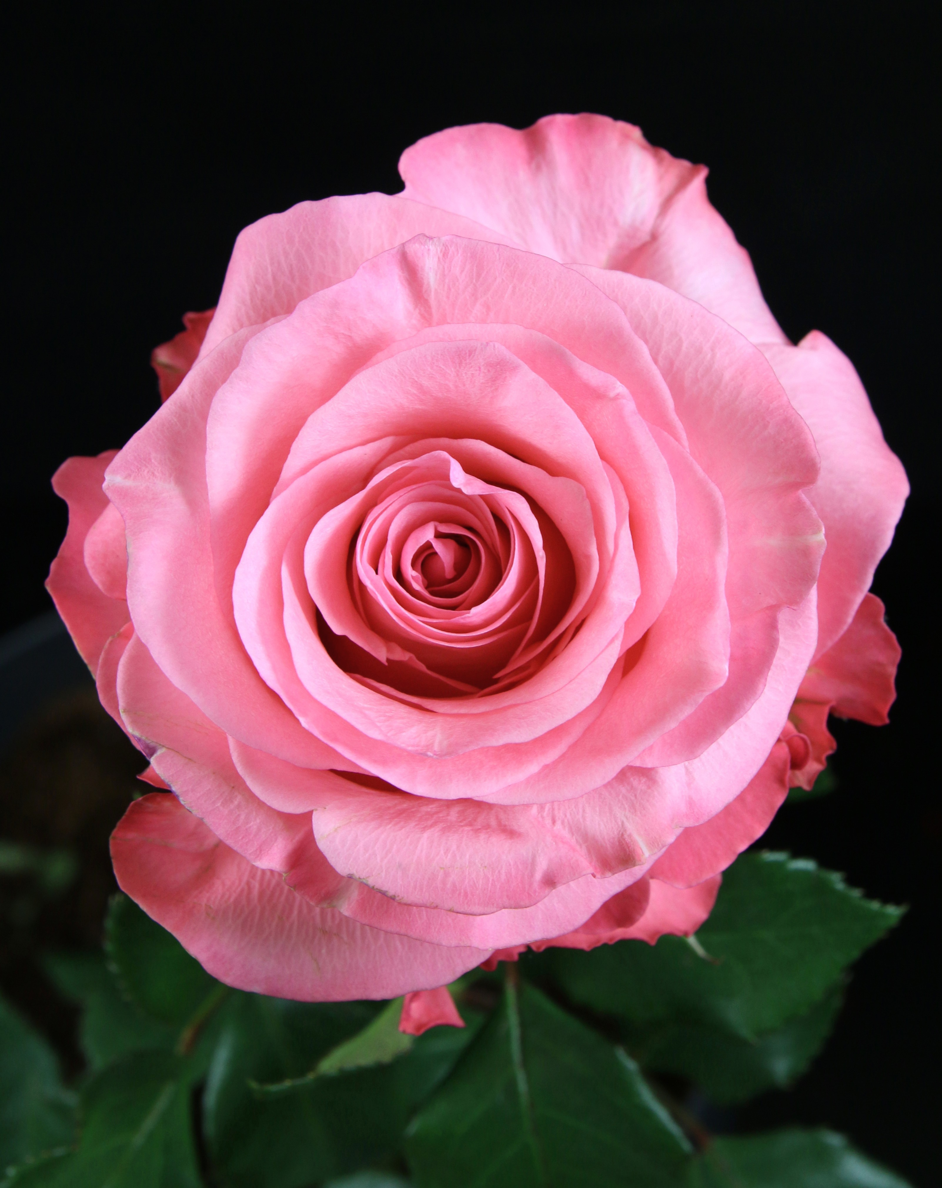 'Conquista' is a modern soft pink hybrid tea rose cultivar introduced in 2013.